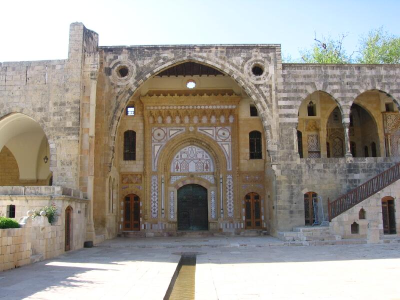 Beiteddine Palace - Inner Courtyard Photographed by BlingBling10